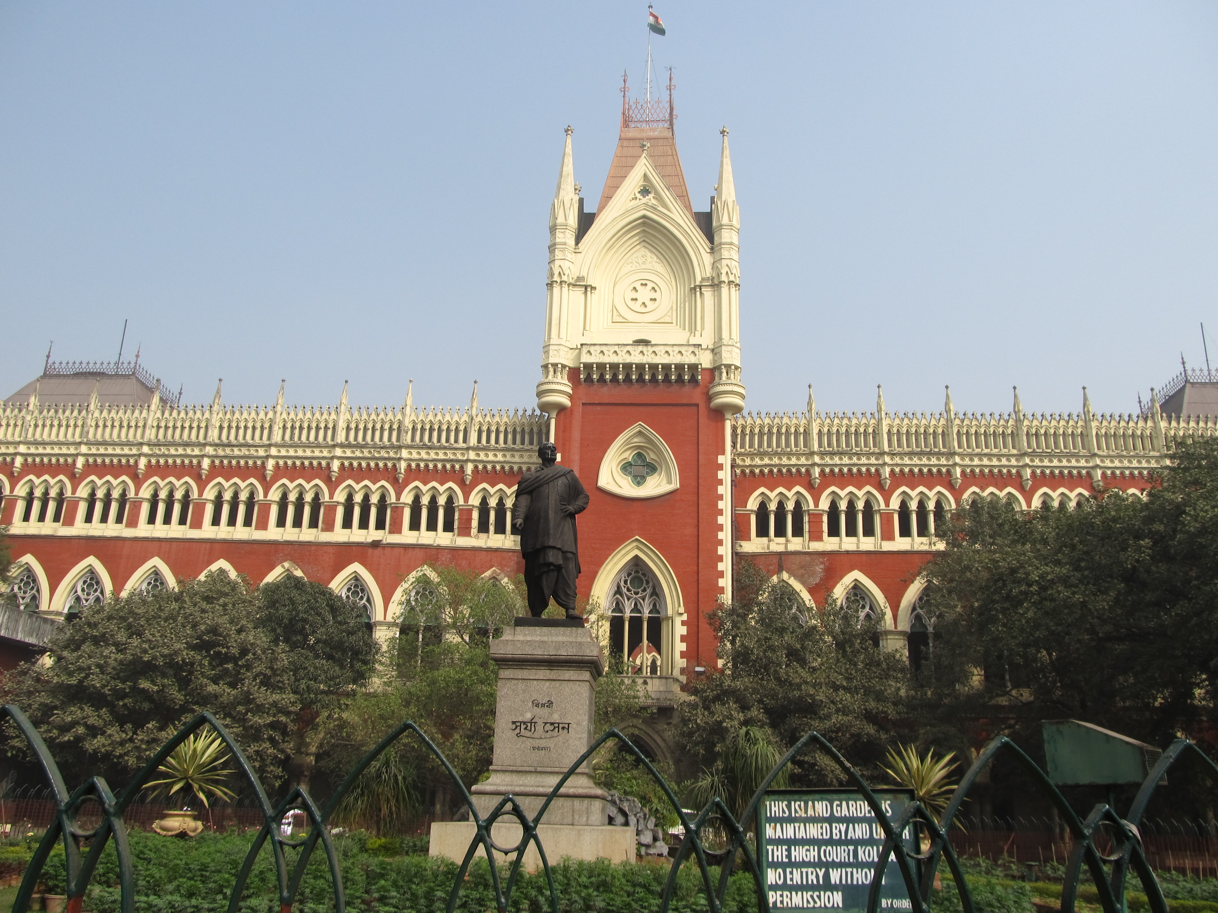 The Calcutta High Court formerly known as the High Court of Judicature at Fort William is the oldest High Court in India. It was established on 1st July, 1862 under the High Court’s Act, 1861. It has jurisdiction over the state of West Bengal and the Union Territory of the Andaman and Nicobar Islands. The High Court building was designed by Mr. Walter Granville, Government Architect, on the model of the ‘Stadt-Haus’ or Cloth Hall at Ypres in Belgium. The Calcutta High Court has the distinction of being the first High Court and one of the three Chartered High Courts to be set up in India, along with the High Courts of Bombay, Madras.